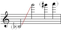 oboe range